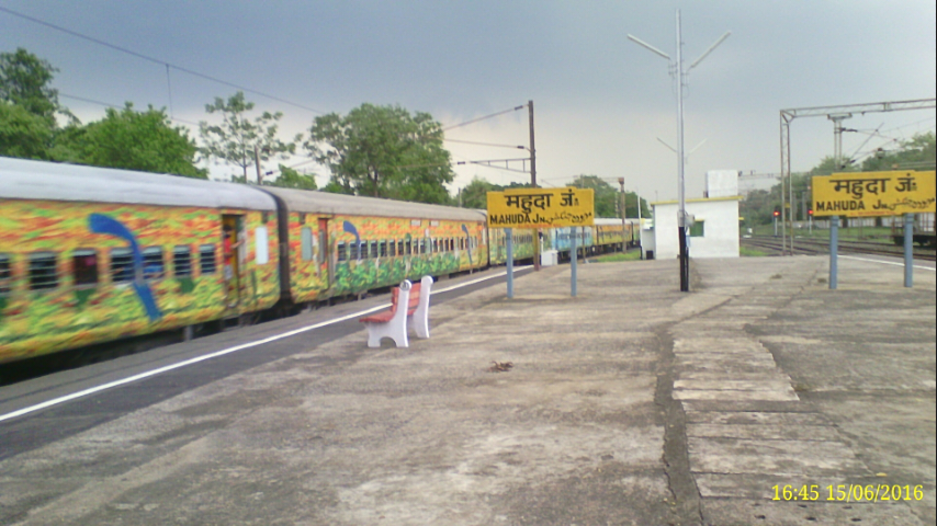 A train leaving the station